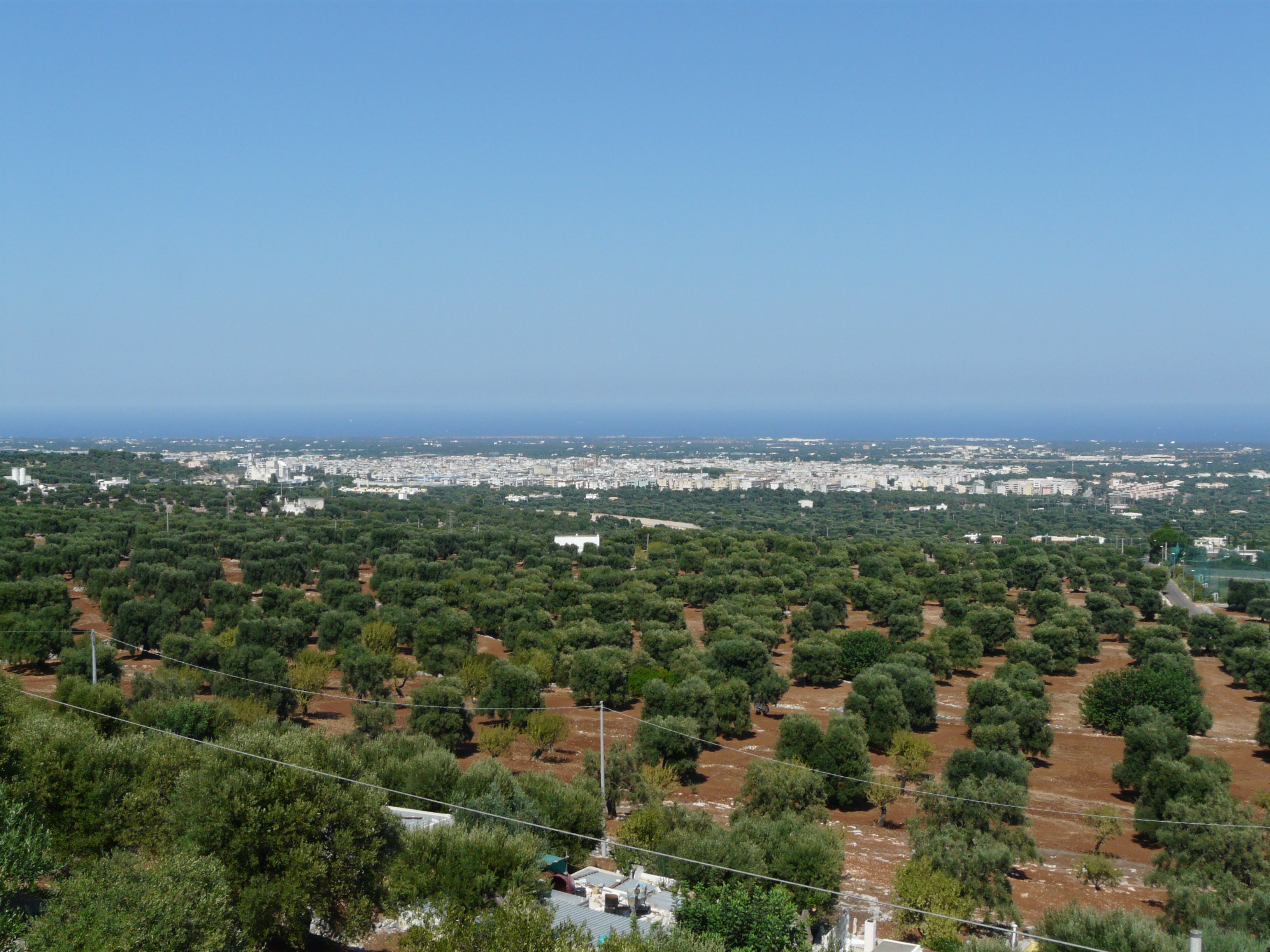 Fasano (BR)